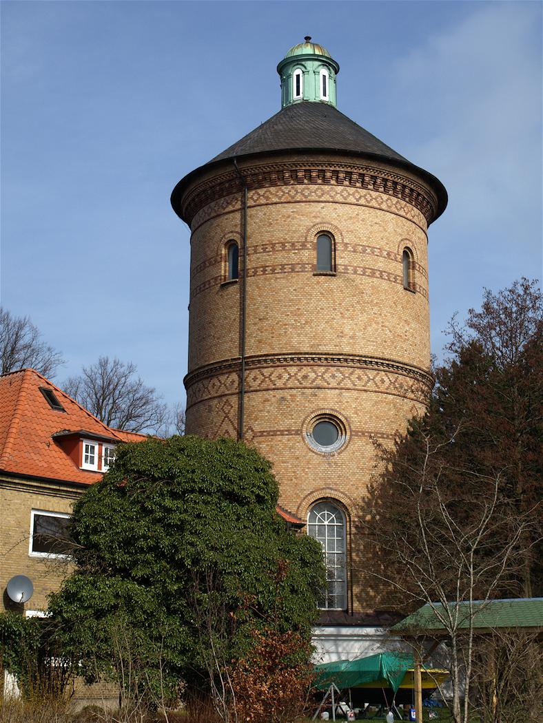 Old water tower Flensburg (Germany), photo 2011